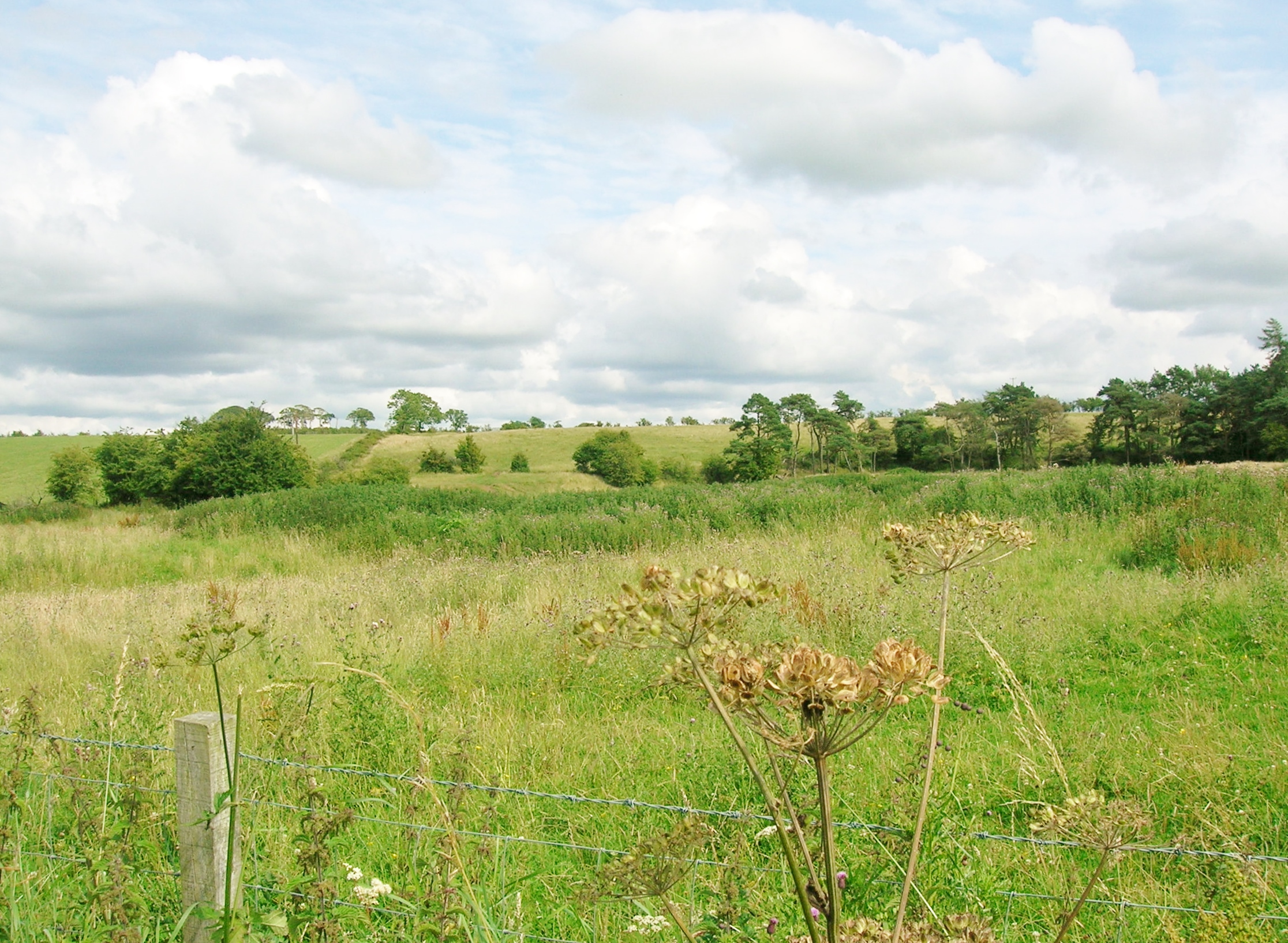 Lochridge old limestone Quarry, Byrehill, Stewarton, East Ayrshire, Scotland. Robert Burnes, uncle of the poet, worked here in the 18th century.